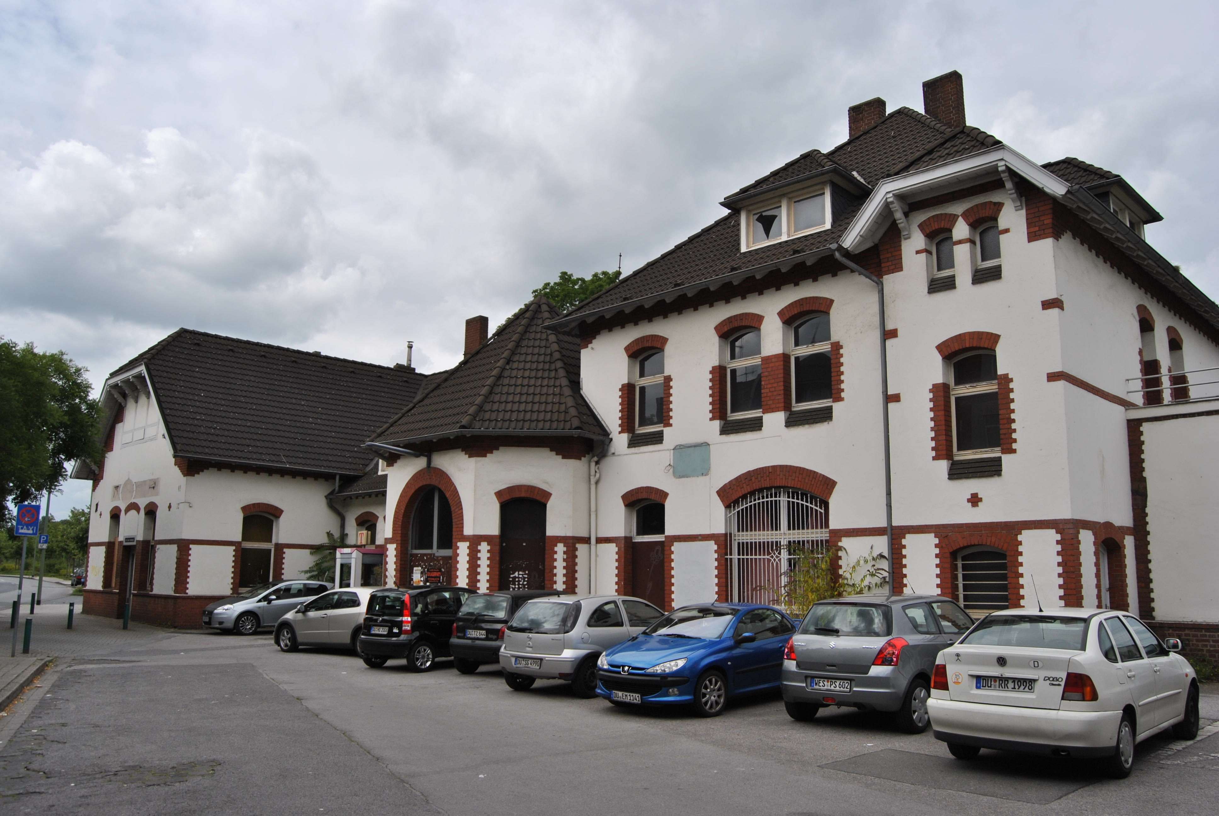 This photograph was taken with a Nikon D3000 This image shows a heritage building in Germany, located in the North Rhine-Westphalian city Duisburg. Bahnhof Rheinhausene in Duisburg-Friemersheim